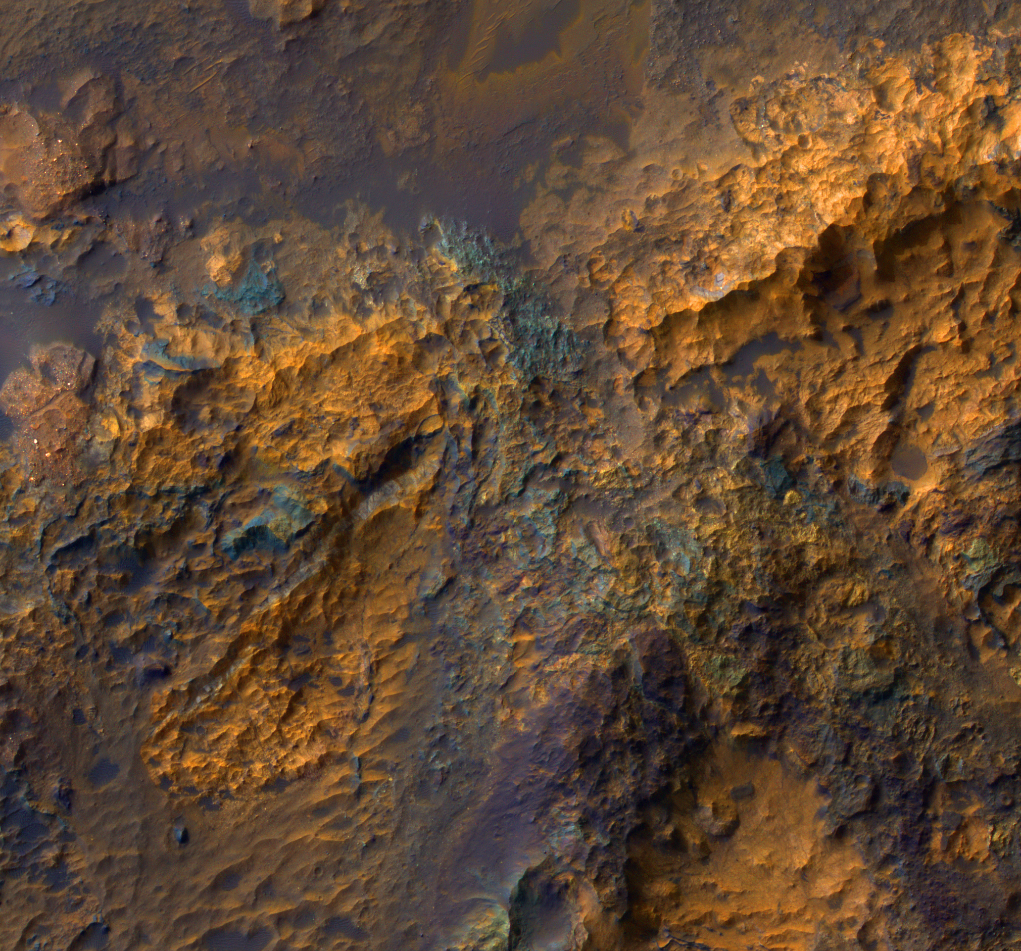 This image covers Luki Crater in the Southern highlands. This crater formed on the floor of Uzboi Vallis between Hale and Holden craters, near the confluence with Nanedi Vallis. The central region of the crater consists of uplifted ancient bedrock with a great variety of rock types, as shown by the color diversity.